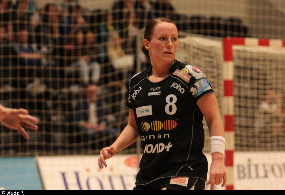 Ragnhild Aamodt, Norwegian handball player, during a 2008/09 Danish Championship play off match between FC Midtjylland and FCK. The picture was taken at Ikast-Brande Arena on 22 April 2009.